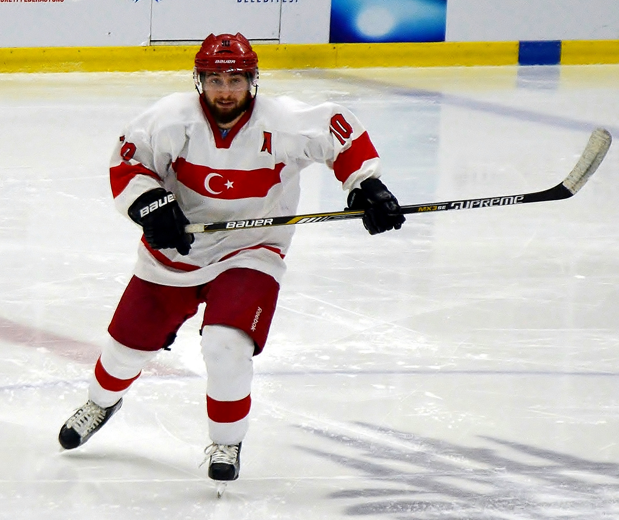 Serkan Gümüş playing for Turkey national at the 2016 IIHF World Championship Division III match against Hong Kong